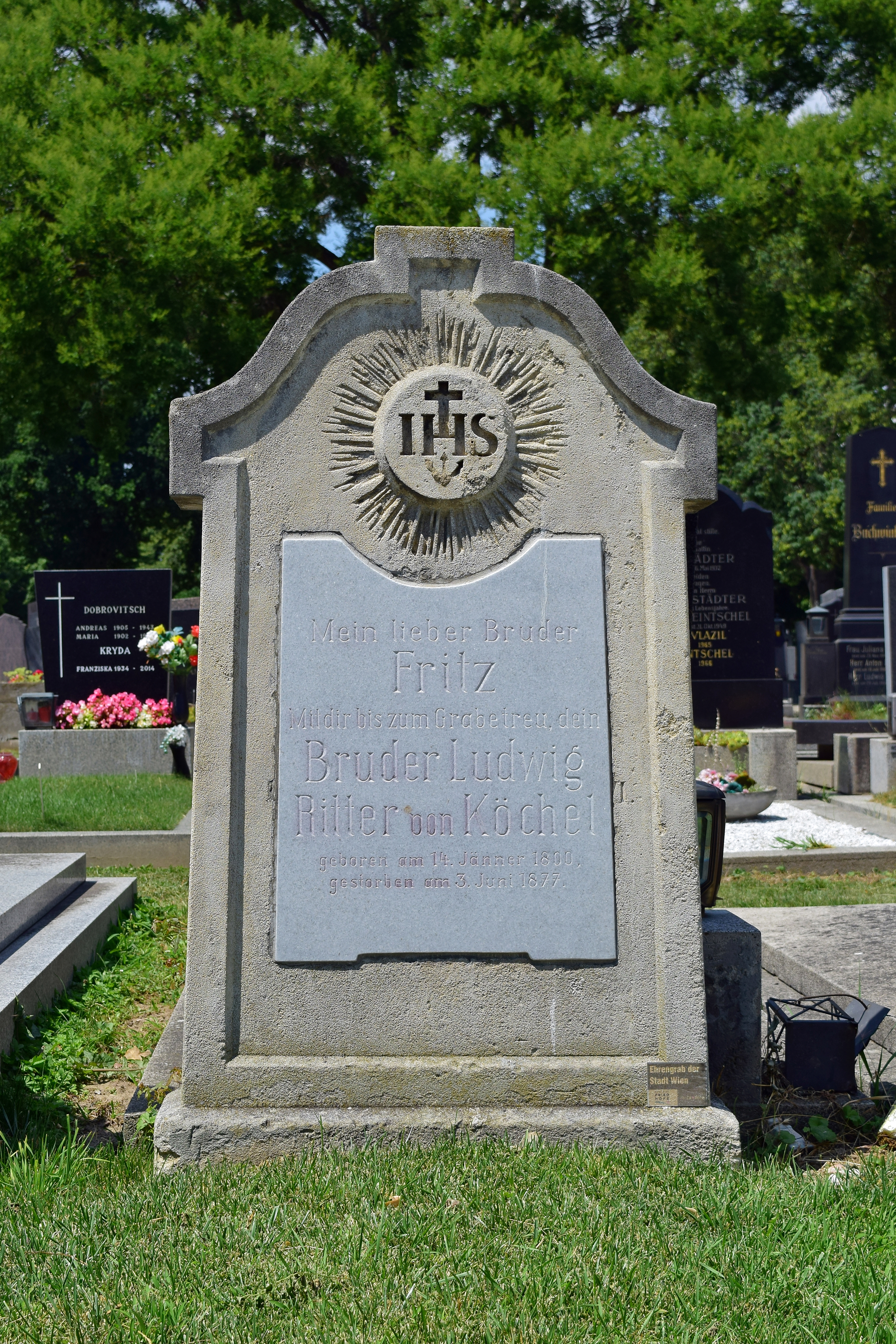 Grave of honor of Ludwig Ritter von Köchel at the Wiener Zentralfriedhof